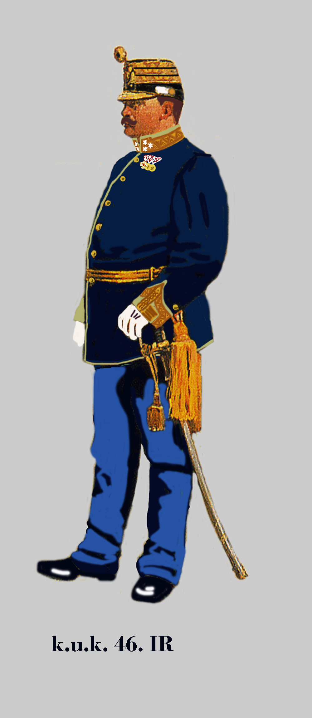 Colonel of the Austria-Hungarian (k.u.k.). 46th hungarian Infantry Regiment in Parade dress 1914